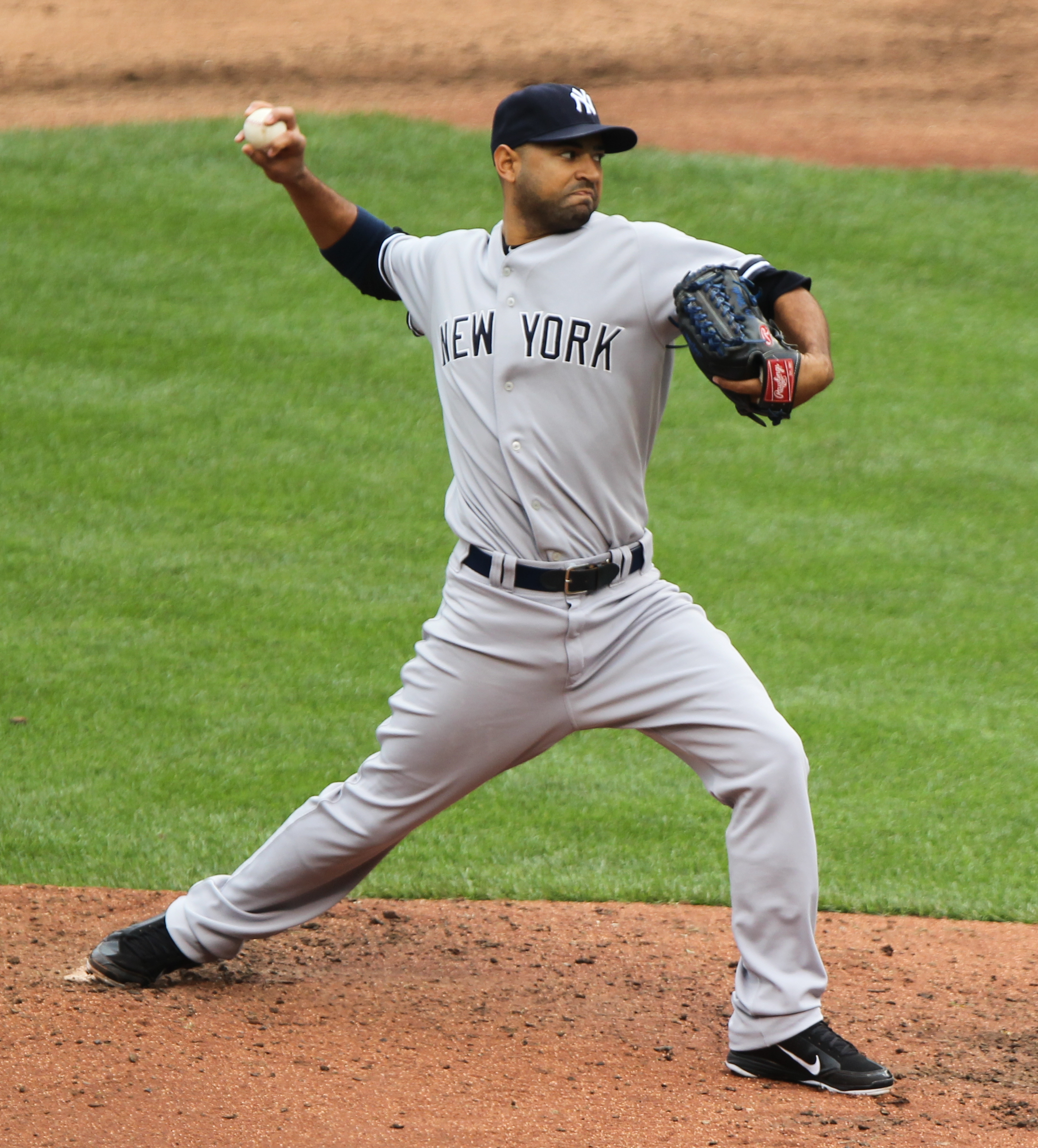 Cory Wade pitching during a game between the New York Yankees and Baltimore Orioles on September 8, 2011